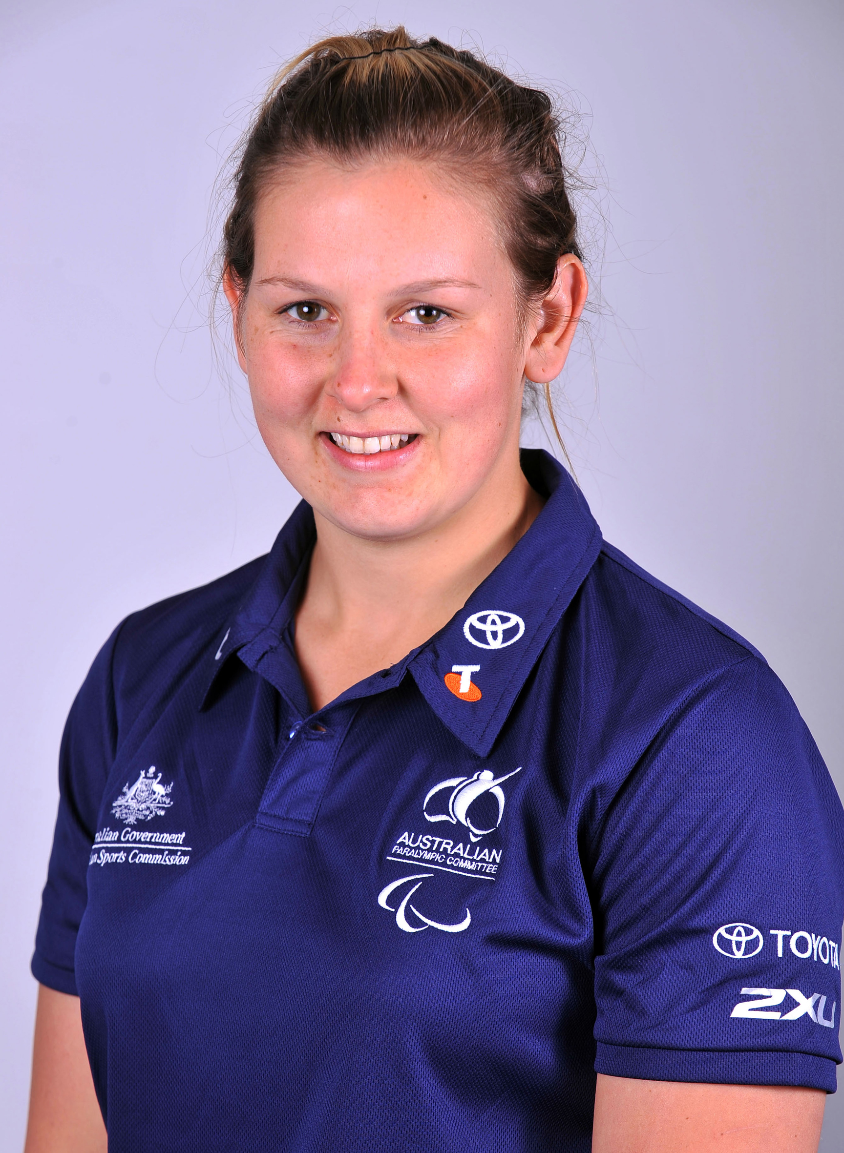 Portrait of Australian swimmer Teigan Van-Roosmalen, 2012 Australian Paralympic (shadow) Team athlete